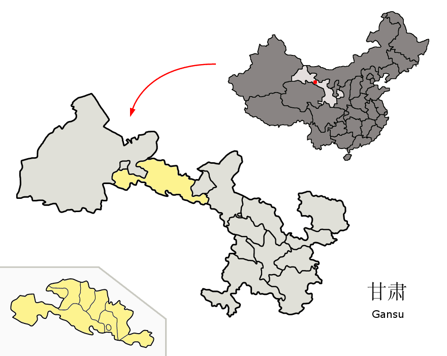 Location of Zhangye Prefecture (yellow) within Gansu province of China Map drawn in october 2007 using various sources, mainly : Gansu province administrative regions GIS data: 1:1M, County level, 1990 Gansu Counties map from